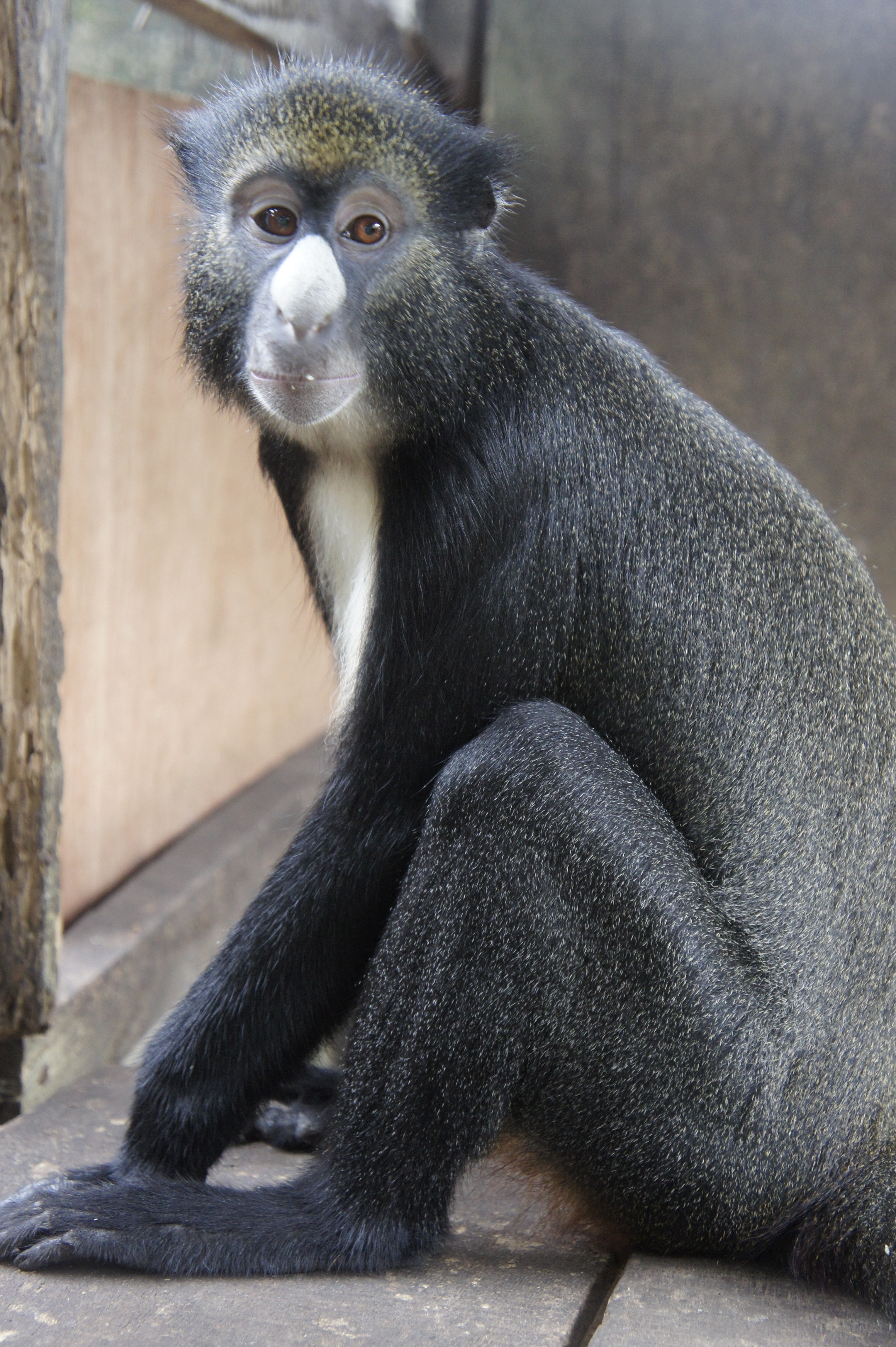 This is a male Putty-nosed monkey (Cercopithecus nictitans), rescued by CERCOPAN primate sanctuary in Nigeria (